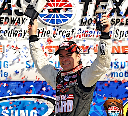 → This file has been extracted from another image: Jeff Gordon Texas 2009.jpg.